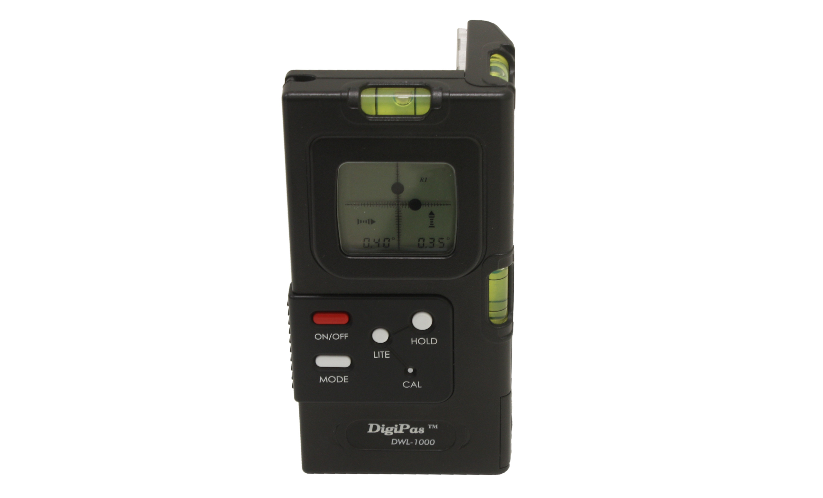 DWL1000XY model